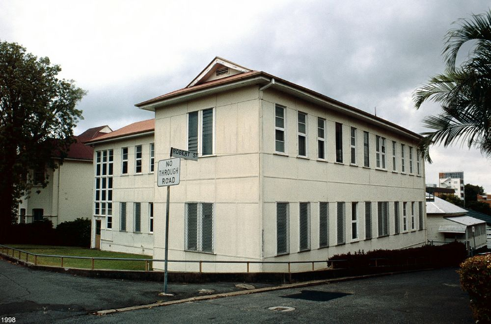 Lady Bowen Hospital Complex (former) (1998)